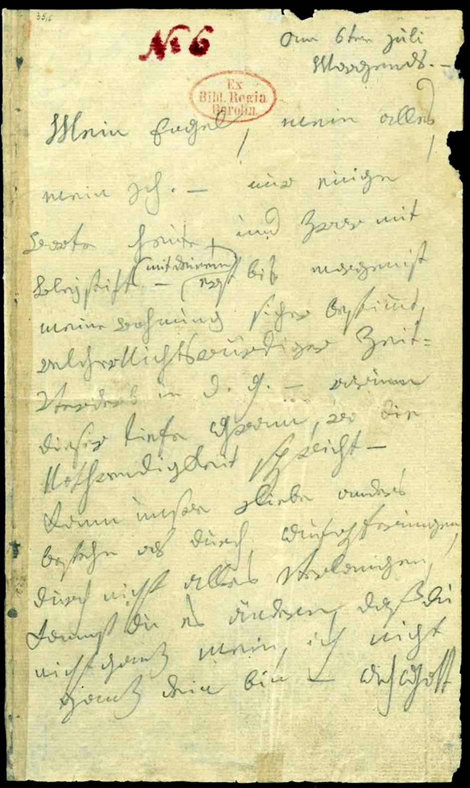 Beethoven: Immortal beloved letter (Unsterbliche Geliebte) 1st page July 1812